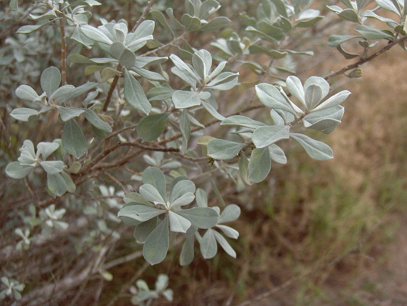 Texas-Silverleaf